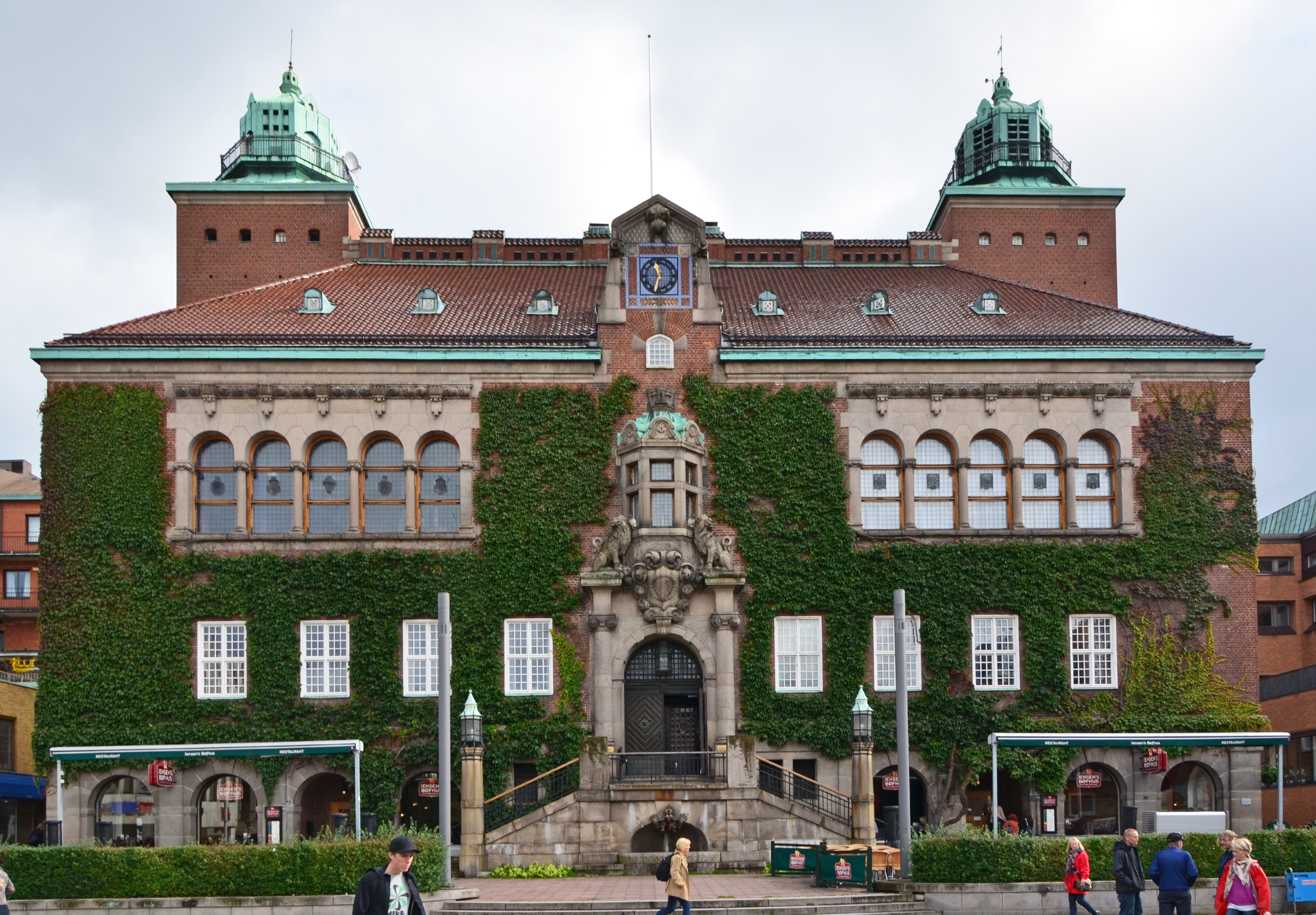 Borås townhall